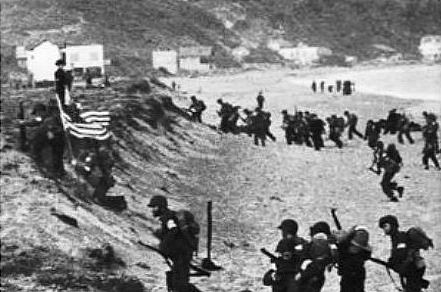 Allied invasion into Algeria during Operation Torch, 8.11.1942